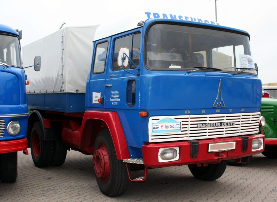 Magirus-Deutz TransEuropa